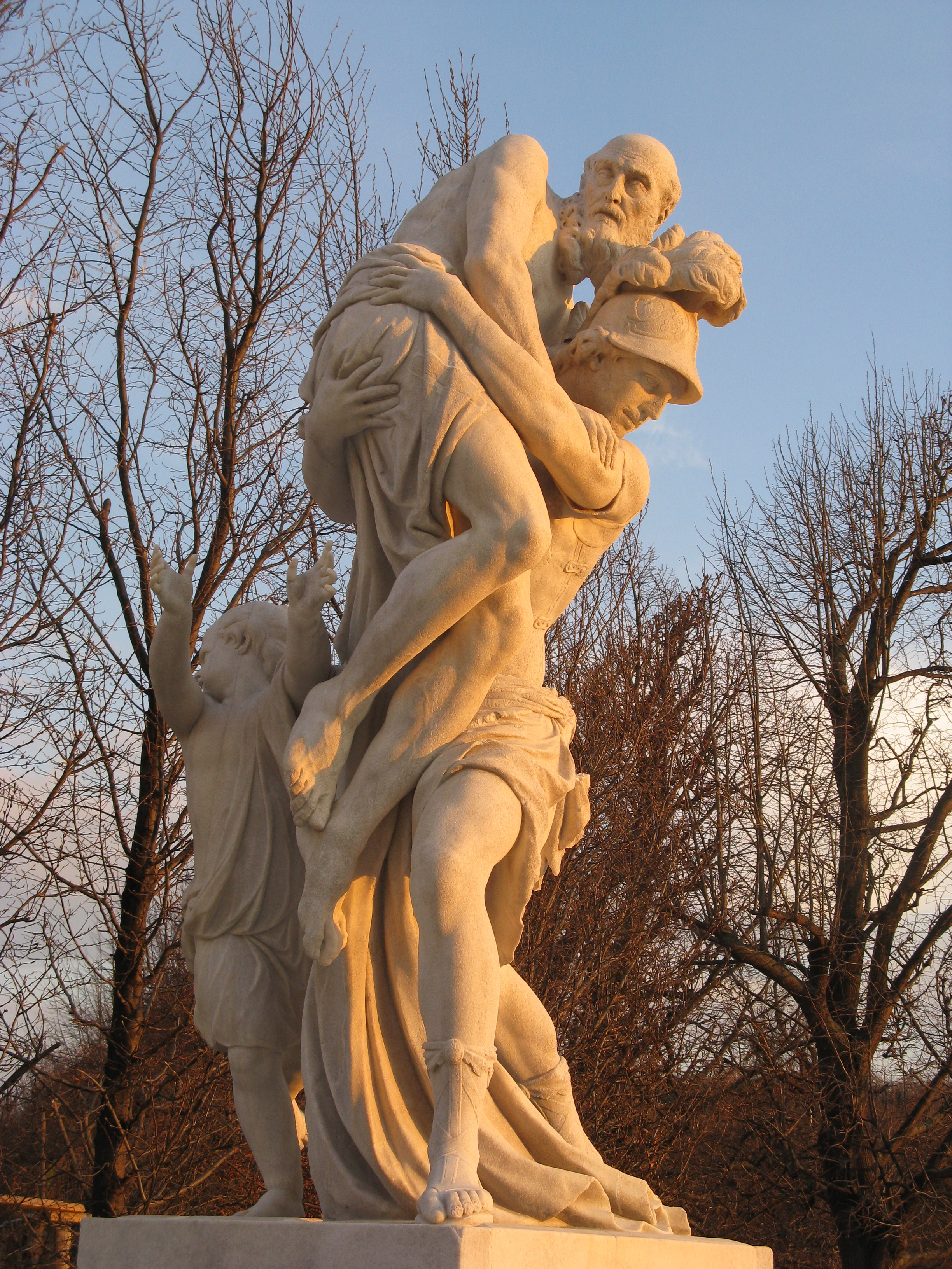 Vienna, Schönbrunn gardens, statue Escape from Troy by Philipp Jakob Prokop